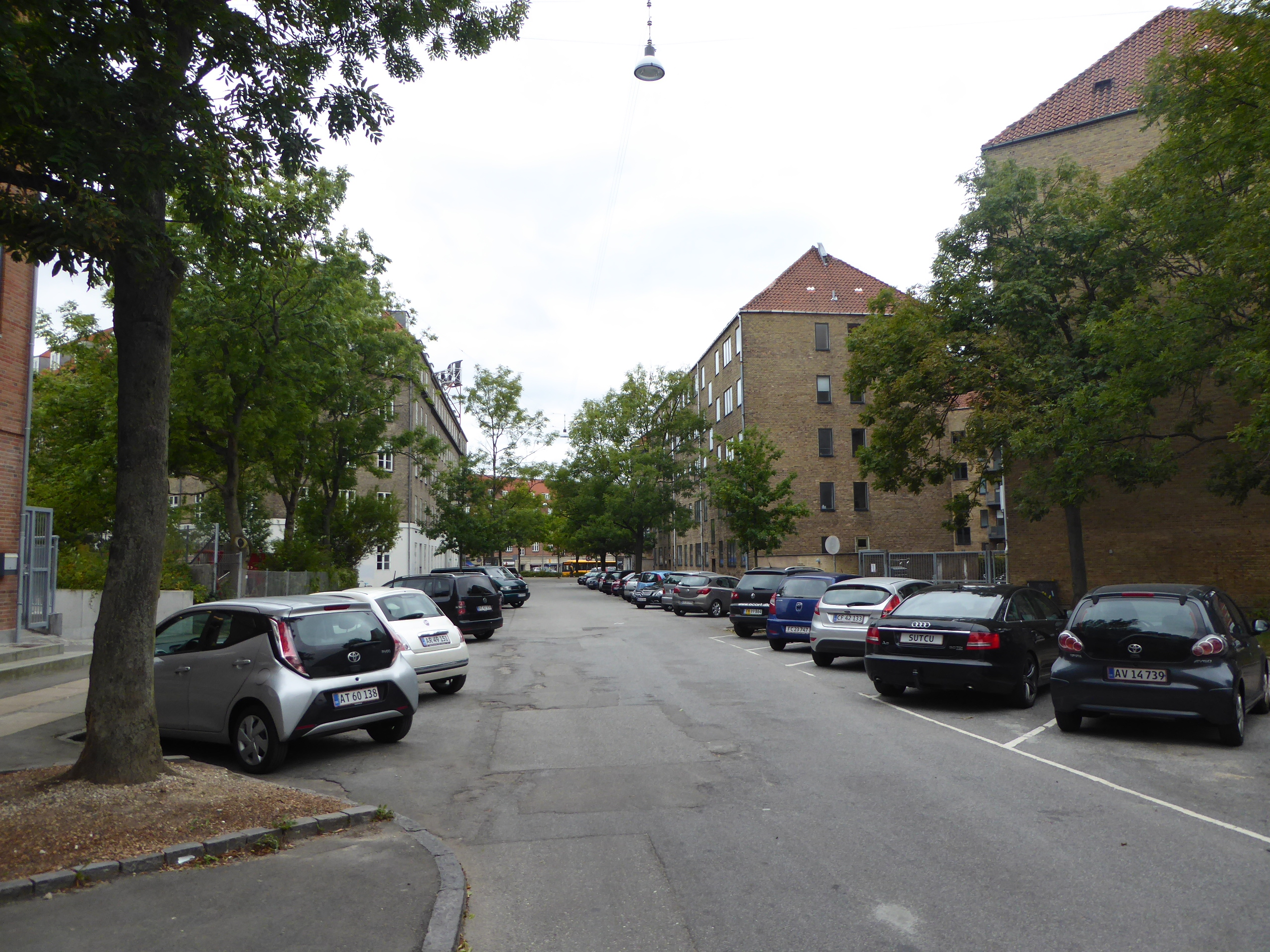 The street Æbeløgade in Østerbro in Copenhagen.